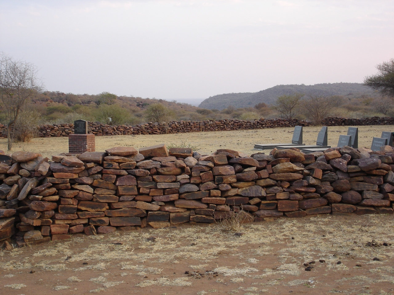 The Bakwena Royal Cemetery located at Ntsweng in Molepolole. Historically it was the royal kraal until the tribe relocated to the current settlement in Molepolole in 1937.